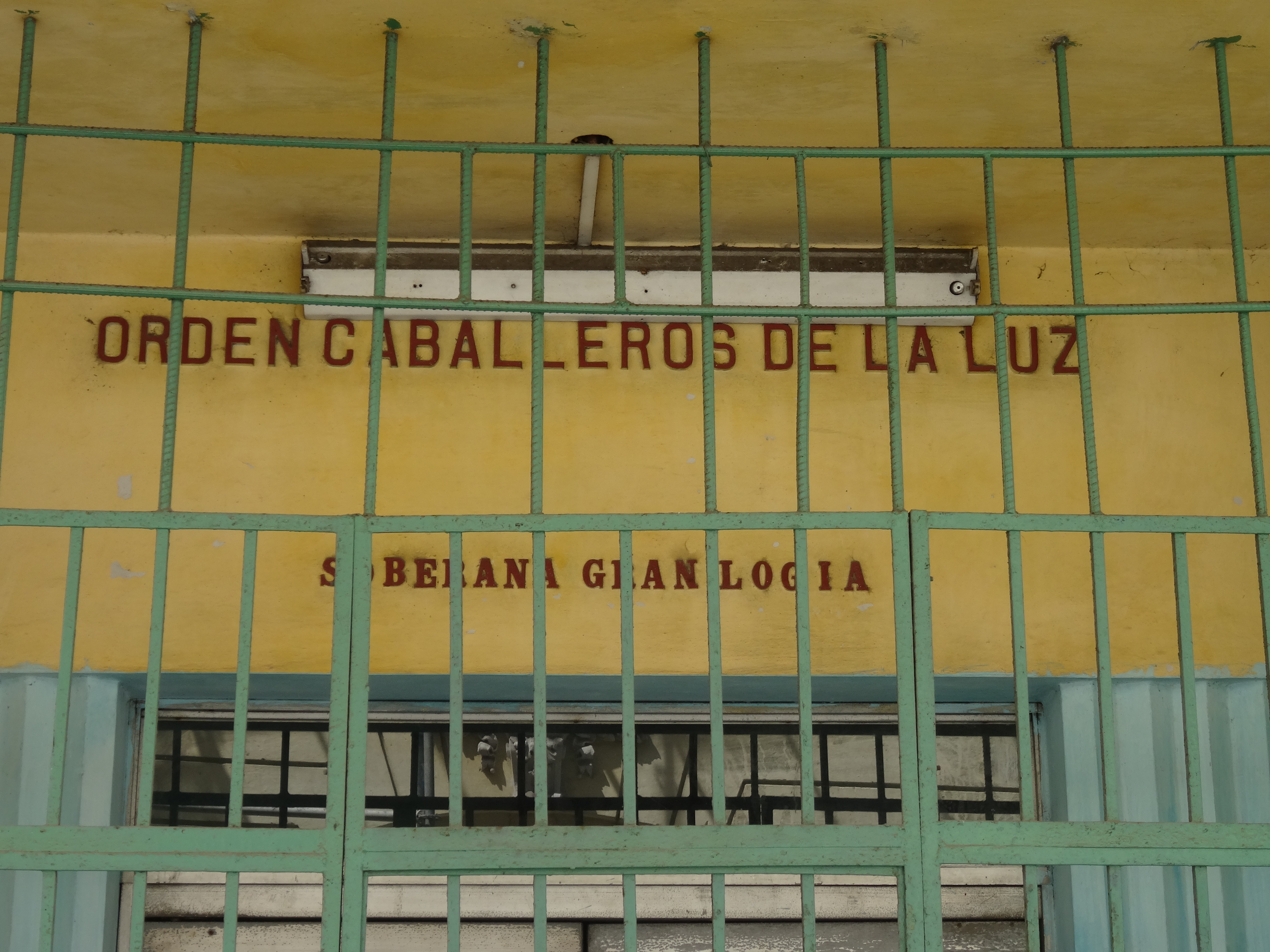 Cuban Masonic Lodge "Orden de los Caballeros de la Luz", Havana